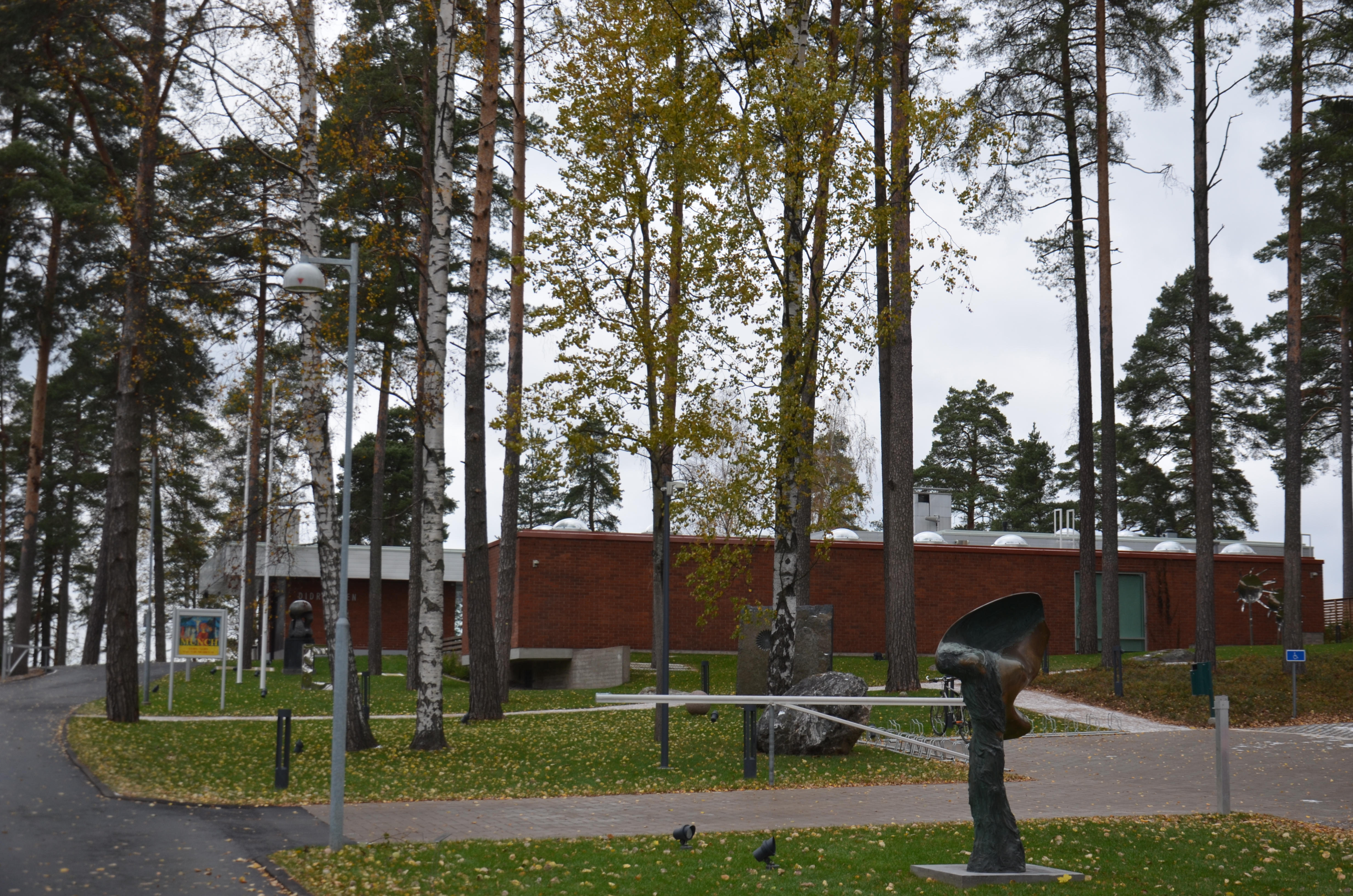 Didrichsen Art Museum, Helsinki